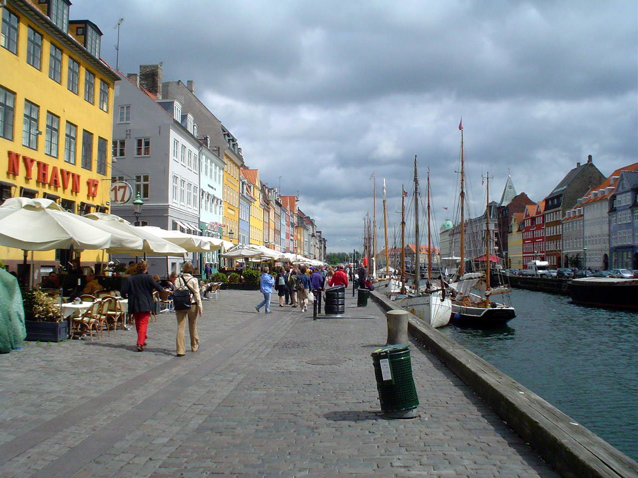 Nyhavn in Copenhagen in the summer of 2003.